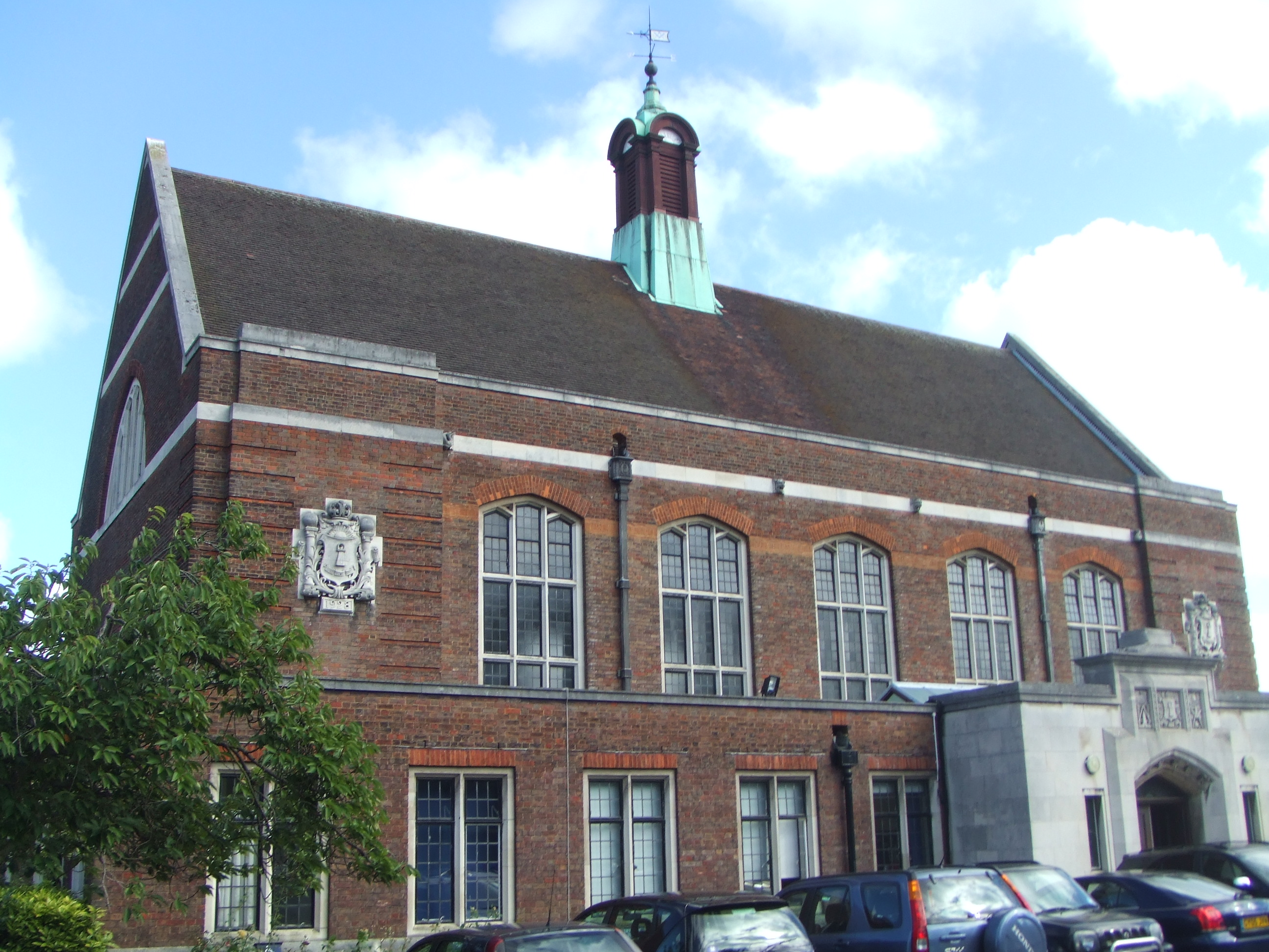 Main building, Bushey Hall School, Bushey, Hertfordshire, UK